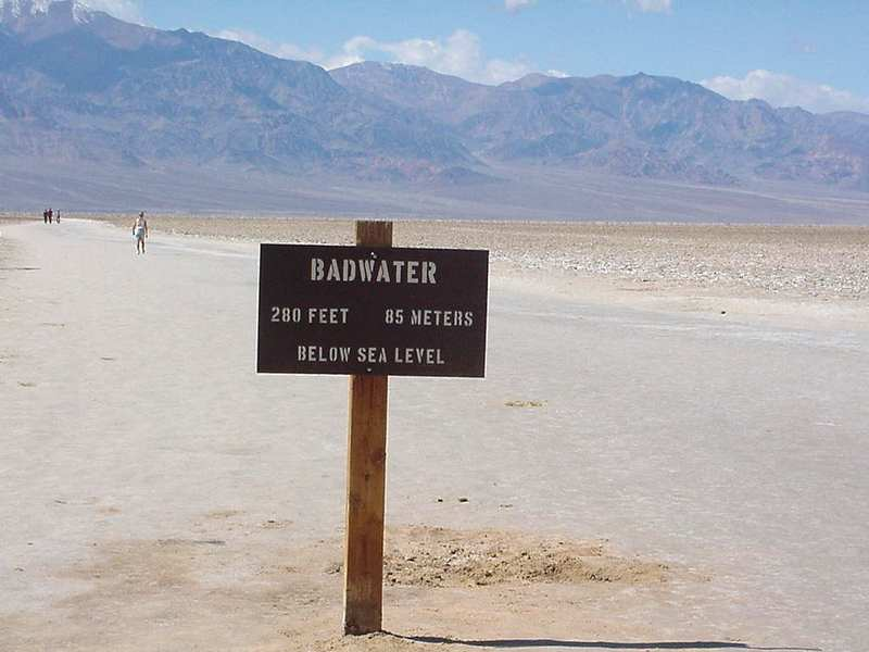 A view from Badwater with a sign, of Death Valley.